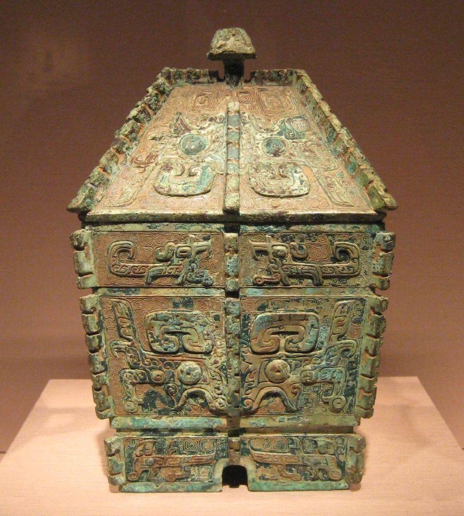 A Shang Dynasty (c. 1600-1050 BC) bronze ritual fang yi vessel for containing food, dated to the 12th century BC, now housed in the Arthur M. Sackler Gallery (Part of the Freer and Sackler Galleries) in Washington D.C.